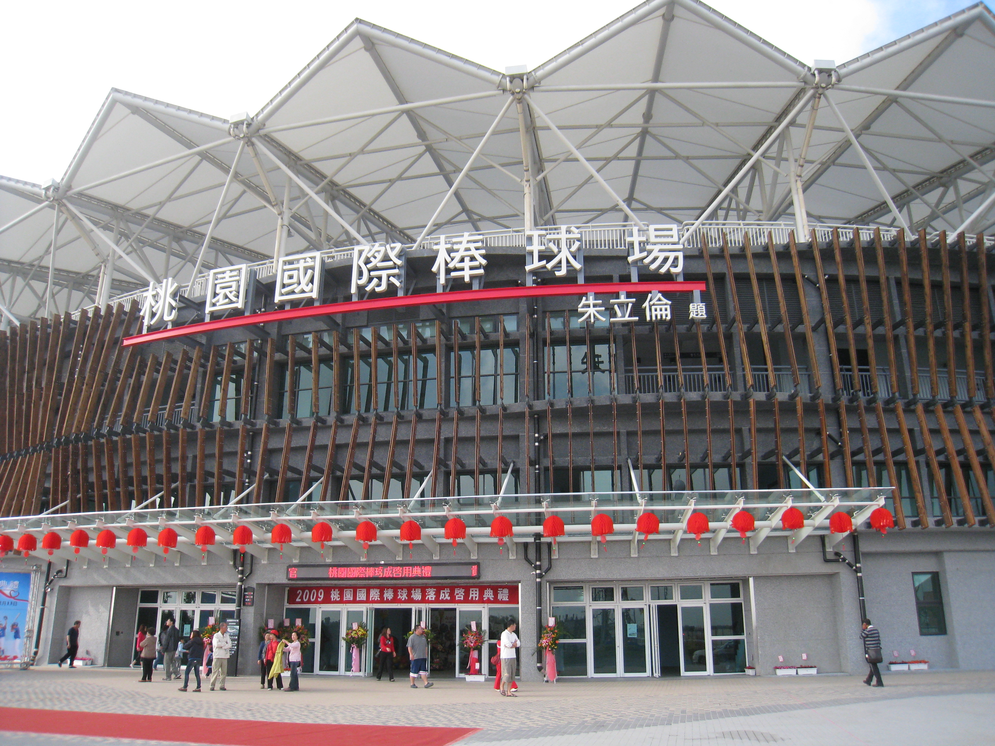 Taoyuan International Baseball field,2009-12-13